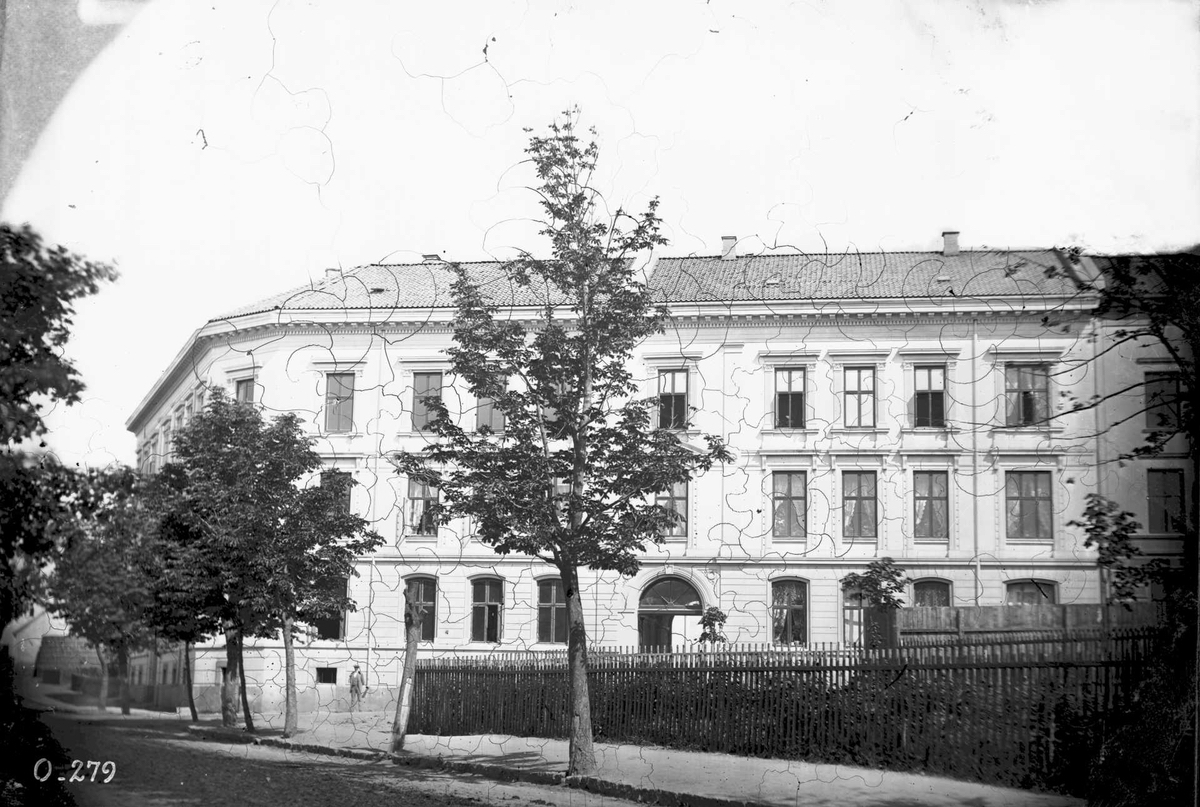 Pilestredet 28, Christiania (now Oslo)